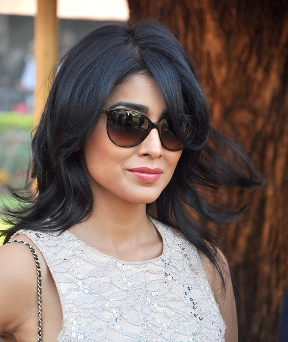 Shriya at The ABV Nucleus Indian 2000 Guineas GRI